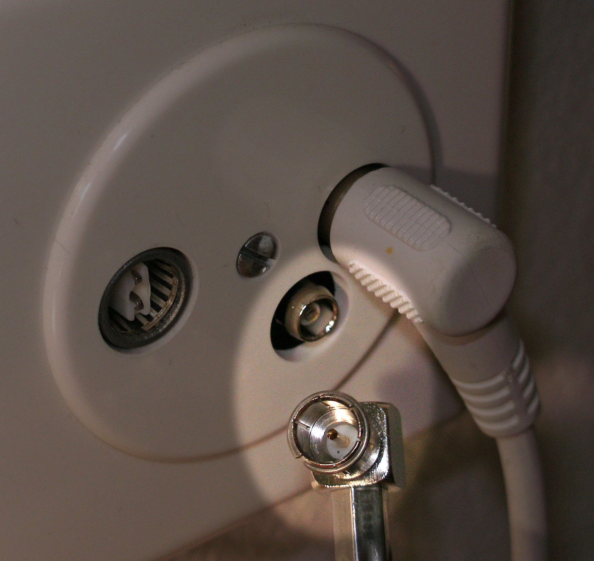 Shows the wall socket and cable plug of the Wiclic high frequency connector system, used among other things for cable modem connections.